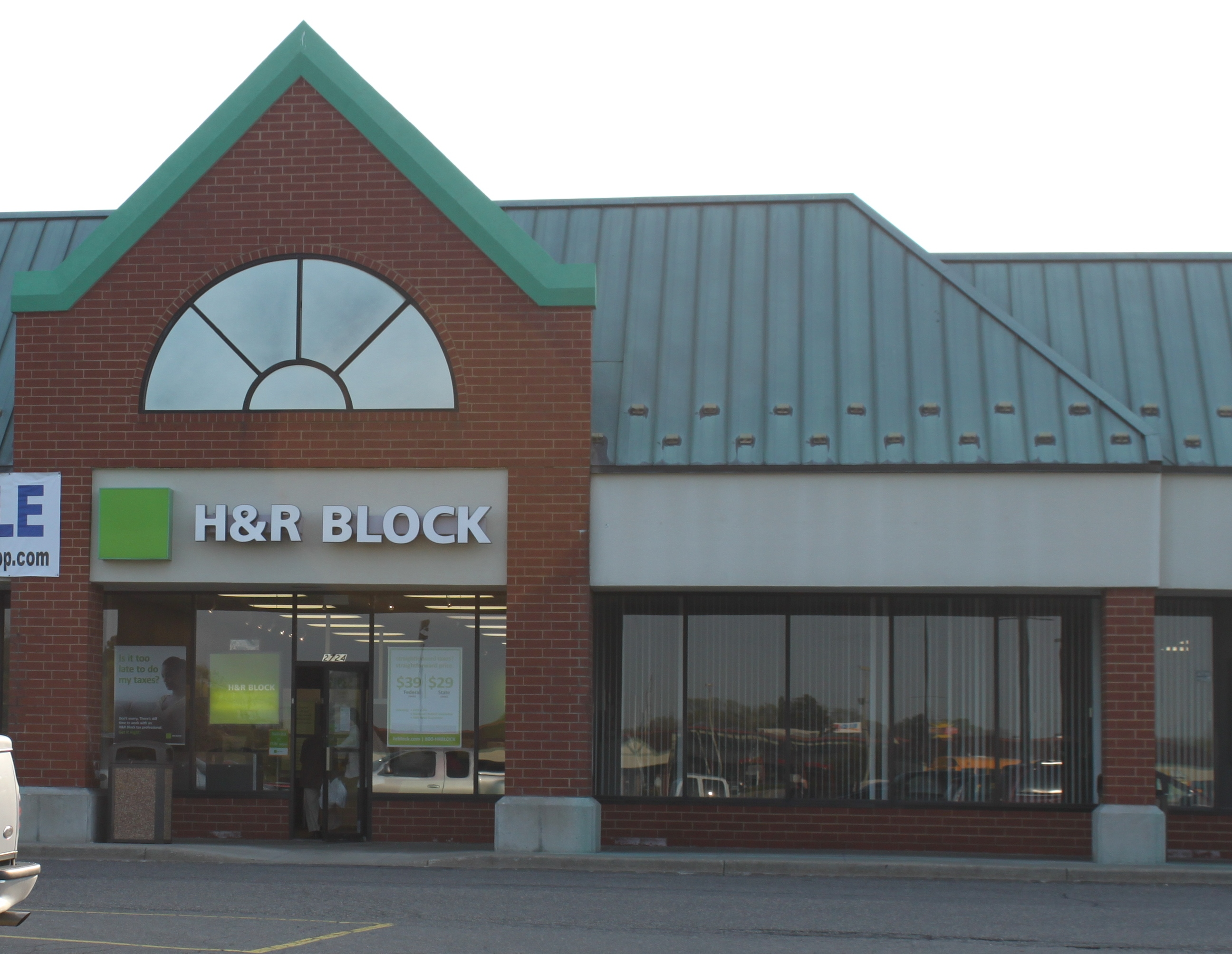 H & R Block office, Ypsilanti, MI